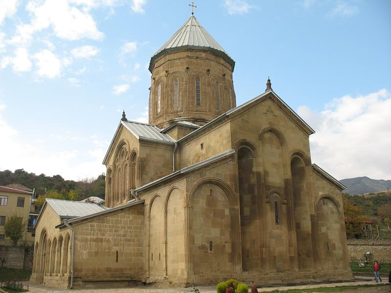 Samtavro church in Mtskheta, Georgia